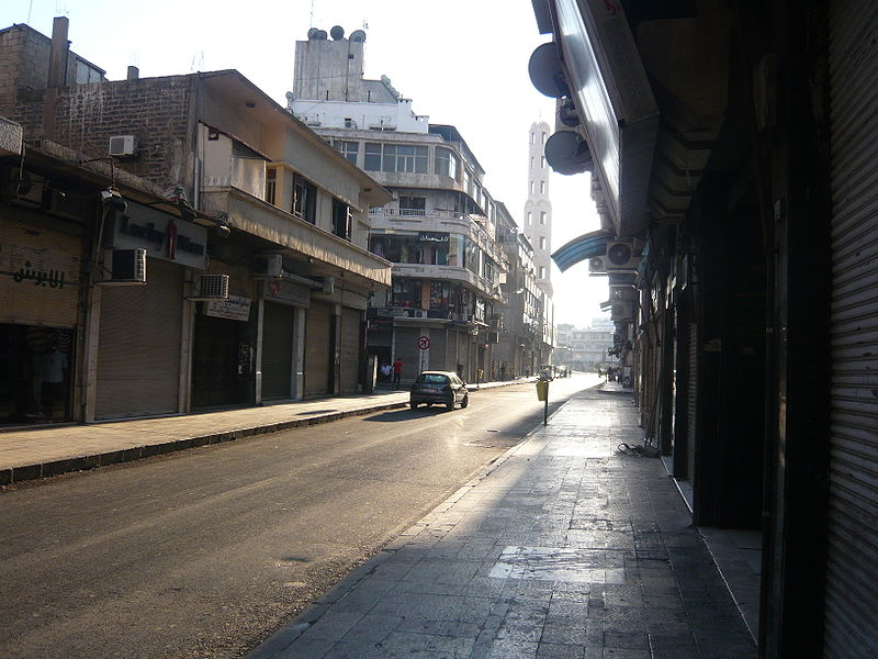 Al-Dablan Street in the Syrian city of Homs.